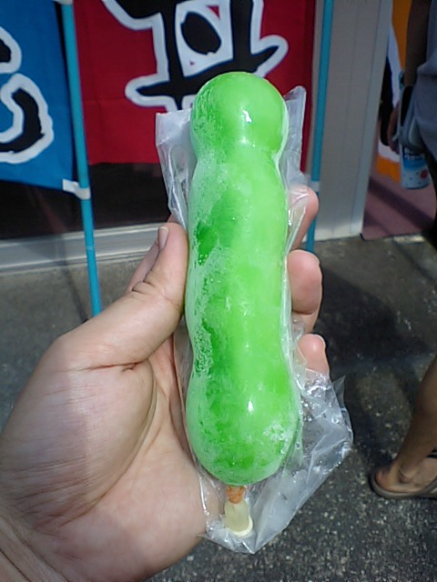 Bakudan, japanese frozen sherbet in a plastic tubes